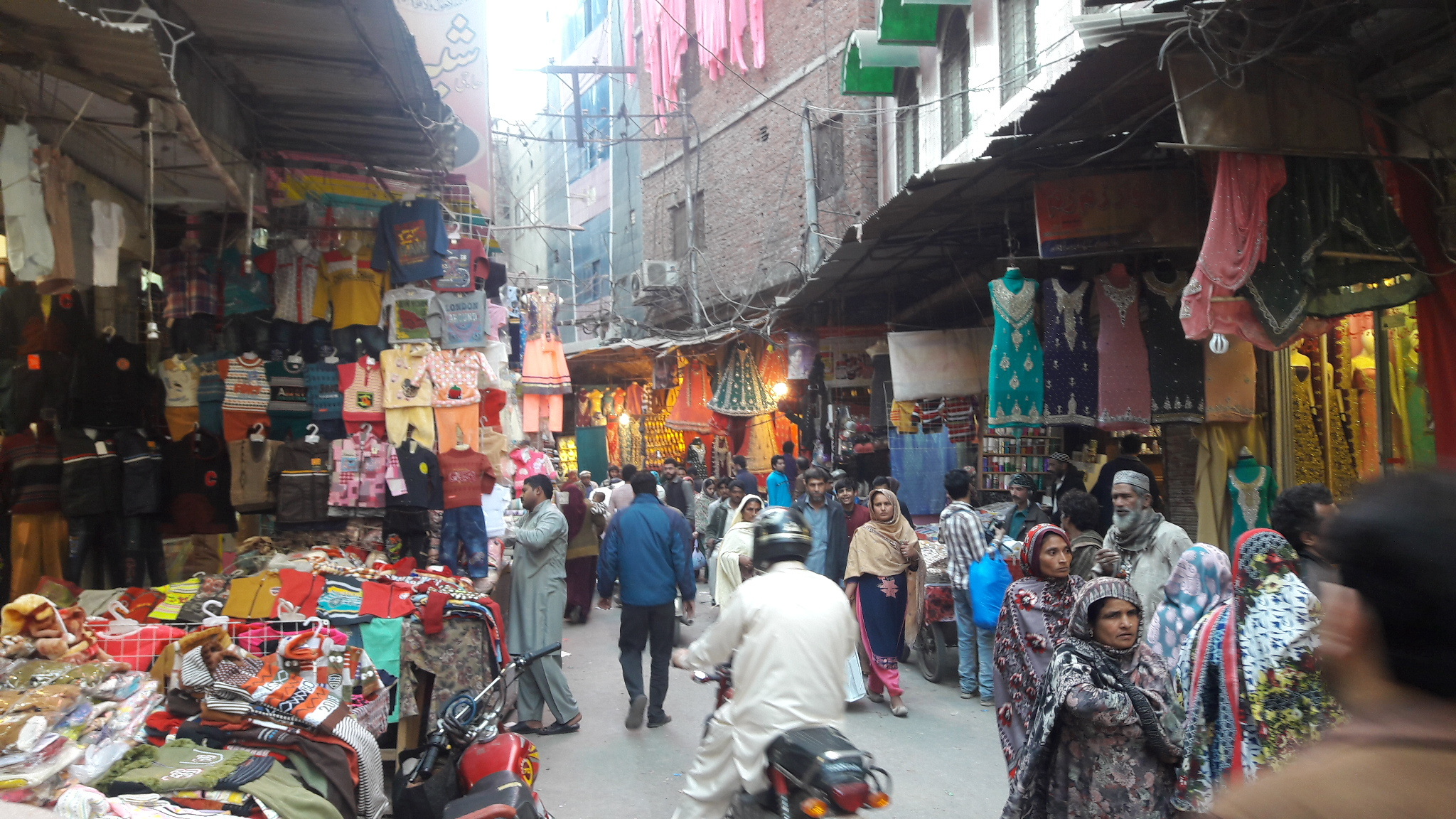 Kashmiri Bazar, Inside Dehli Gate, Lahore